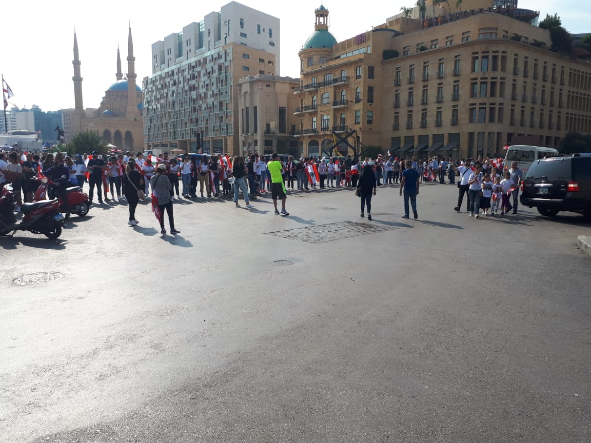 2019 Lebenese Protests. Human chain in Beirut, Martyr place